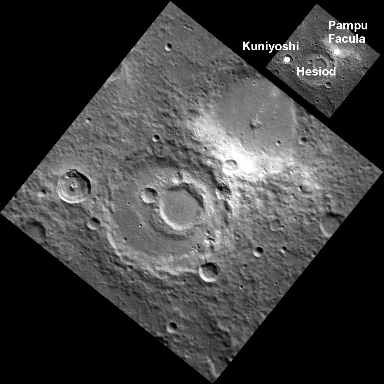 Hesiod crater near center, on Mercury. Kuniyoshi crater at left, and Pampu Facula above right. MESSENGER Narrow Angle Camera image, rotated so north is up. Emission Angle: 12.4 Incidence Angle: 63.6 Latitude: -58.0 Longitude: 326.7 Phase Angle: 75.9